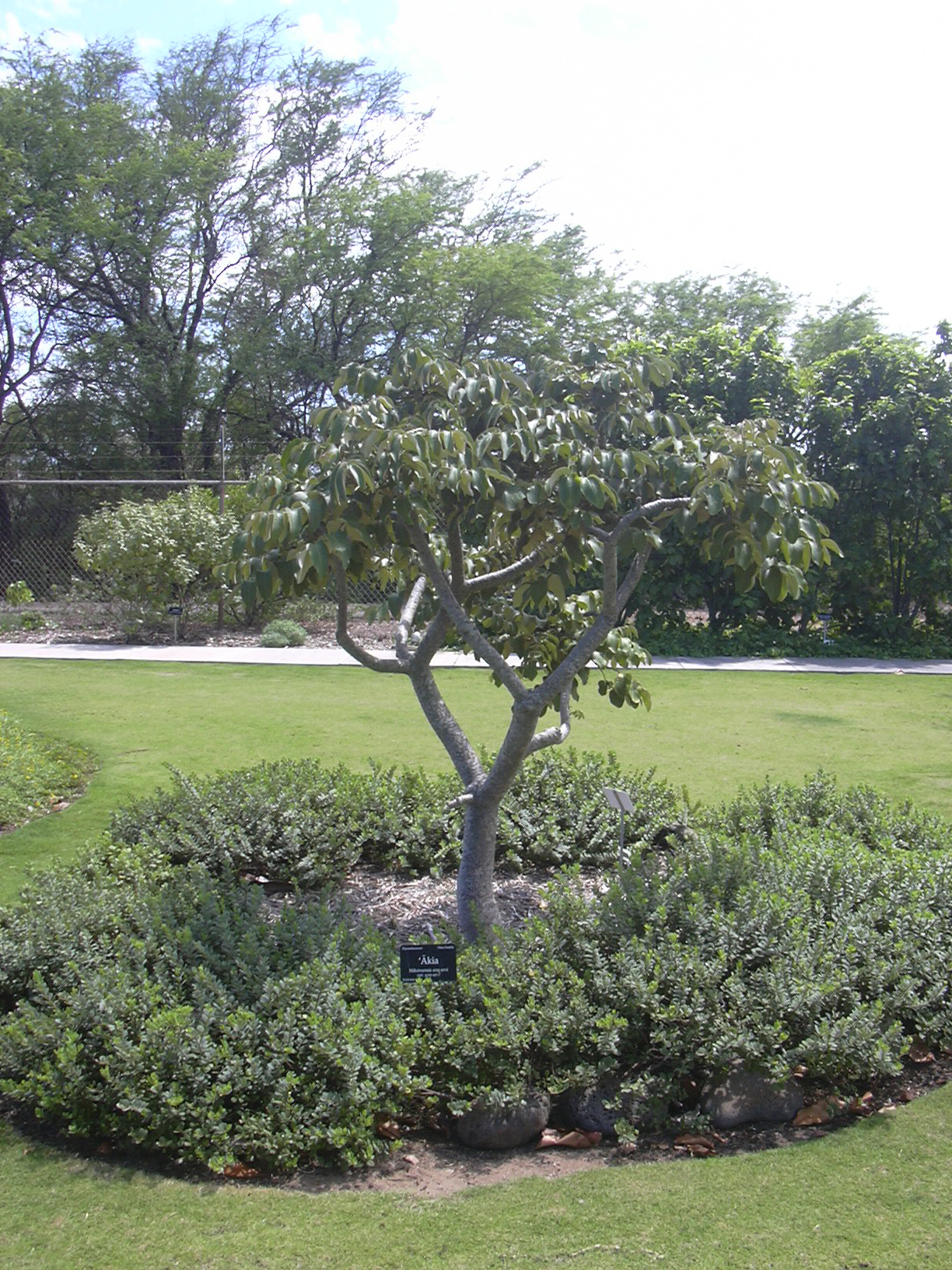 Munroidendron racemosum (habit). Location: Maui, Maui Nui Botanical Garden